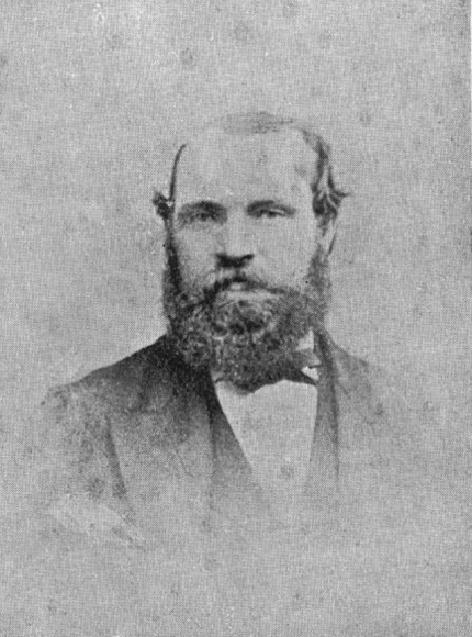 Portrait Thomas Savin